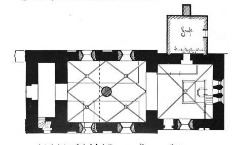 Ground plan of church in Vielist in 1902